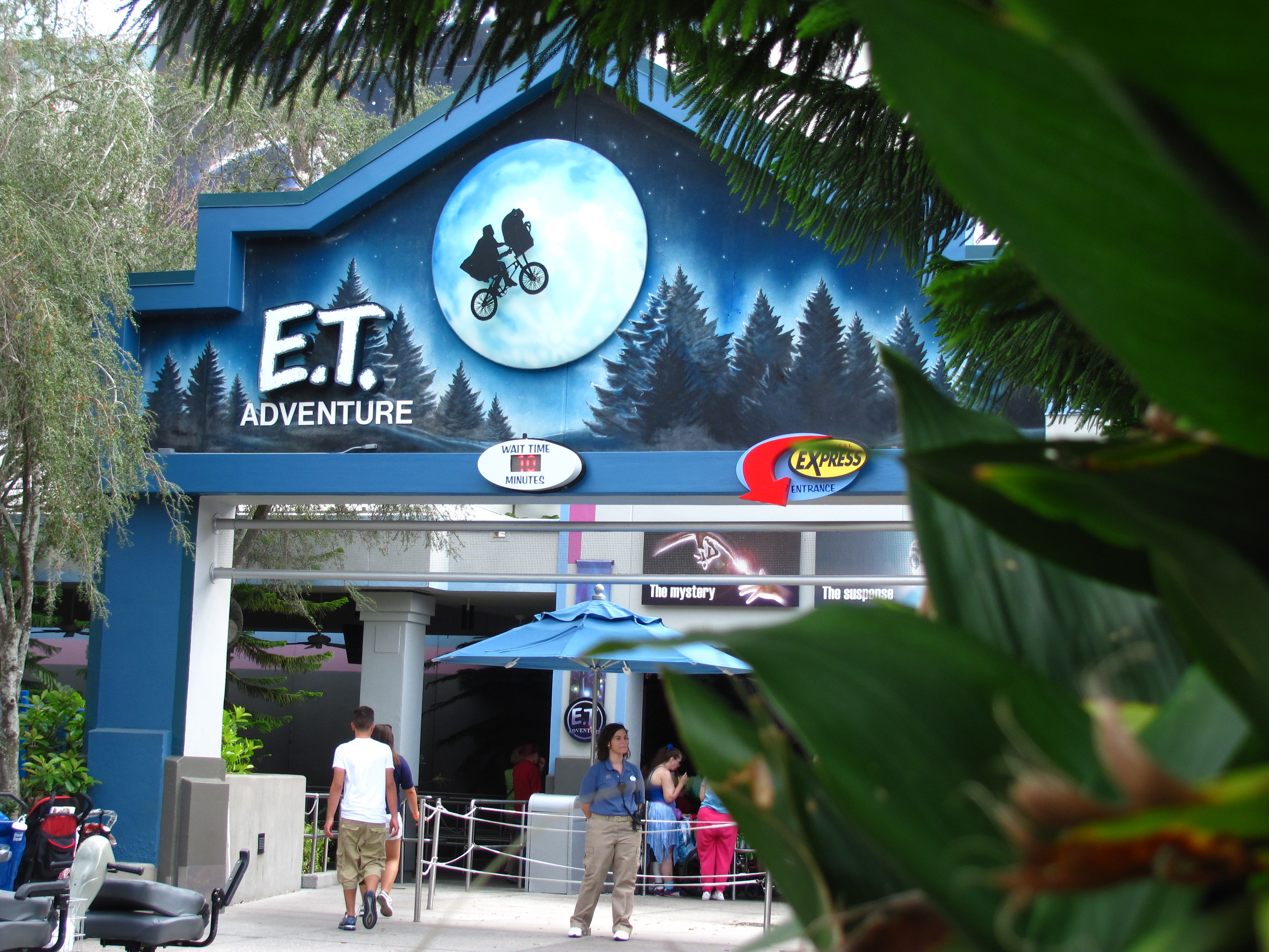 E.T. Adventure